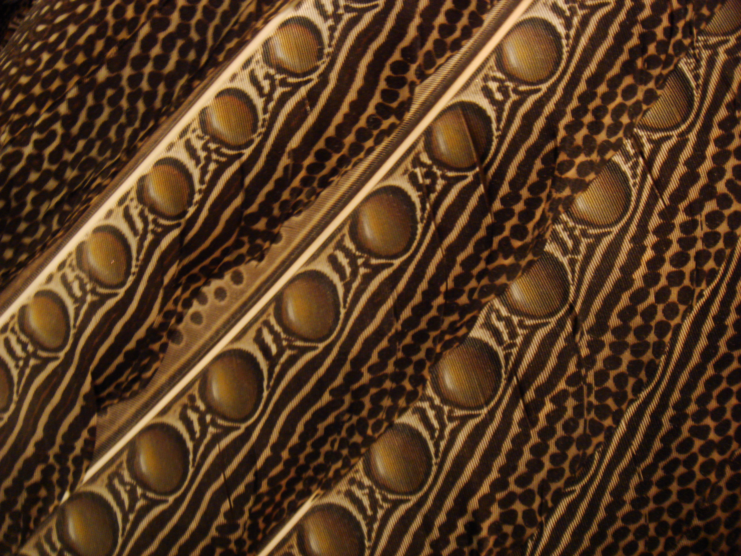 Feathers of Argusianus argus. Zoological Museum, Copenhagen. Picture by Stefano Bolognini.